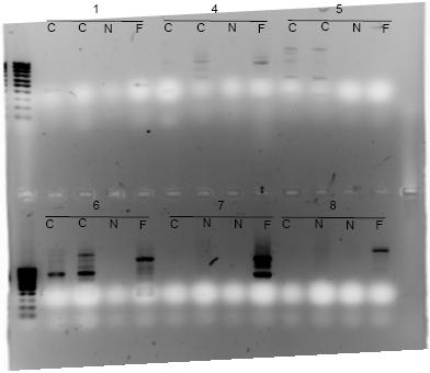 RAPD experiment made by me mesuring lettuce diversity.